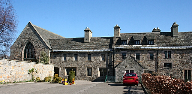 Convent of Mercy The convent chapel has its origins in a Franciscan monastery founded by King Alexander II in the early 13th century. It was damaged during the reformation in 1560, and fell into ruin. In 1896 the church and monastery buildings was restored for the Marquess of Bute by architect John Kinross and has been a convent of the Sisters of Mercy ever since, with links to the Roman Catholic St Sylvester's Primary School next door. The gardens are open to visitors during the summer.